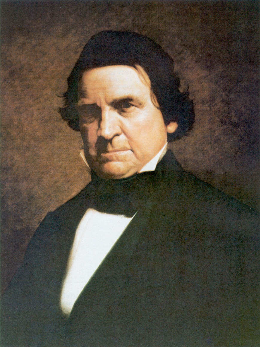 William L. Marcy (1786-1857); Oil on canvas, 27¾" x 22¼".